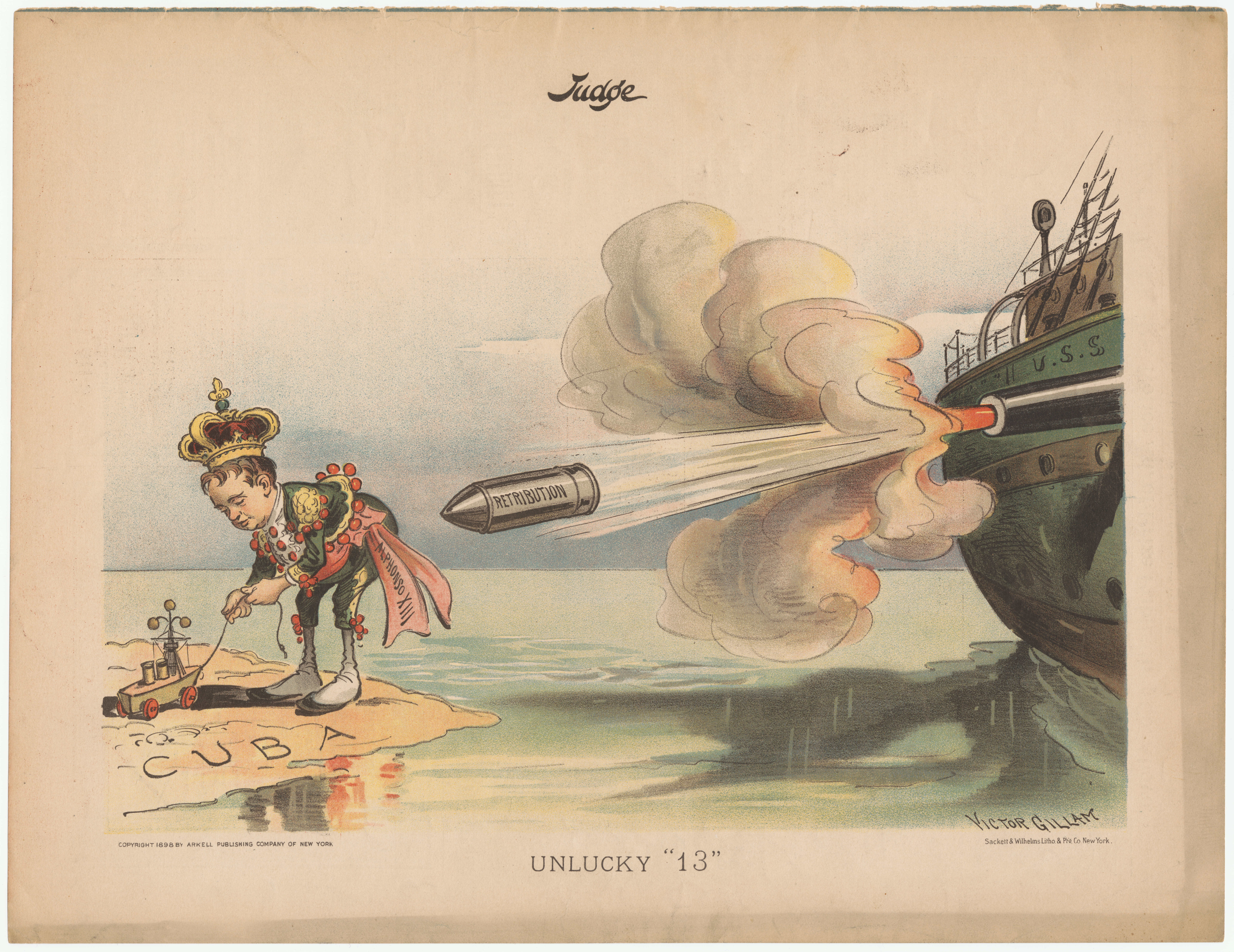 This cartoon followed the explosion of the battleship Maine in Havana harbor on February 15, 1898. It depicts King Alphonso XIII playing with toy boats in Cuba, he about to suffer "Retribution"